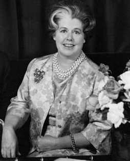 Dame Zara Holt and her husband Harold Holt in Canberra, 1950